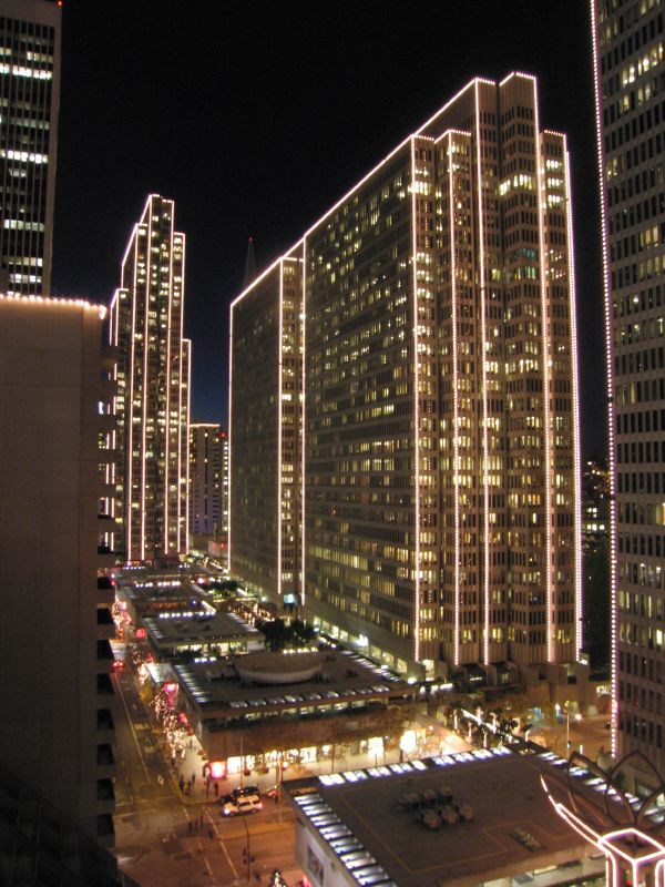 Three Embarcadero Center and Two Embarcadero Center behind it with One Embarcadero Center in the background, San Francisco, Christmas 2007